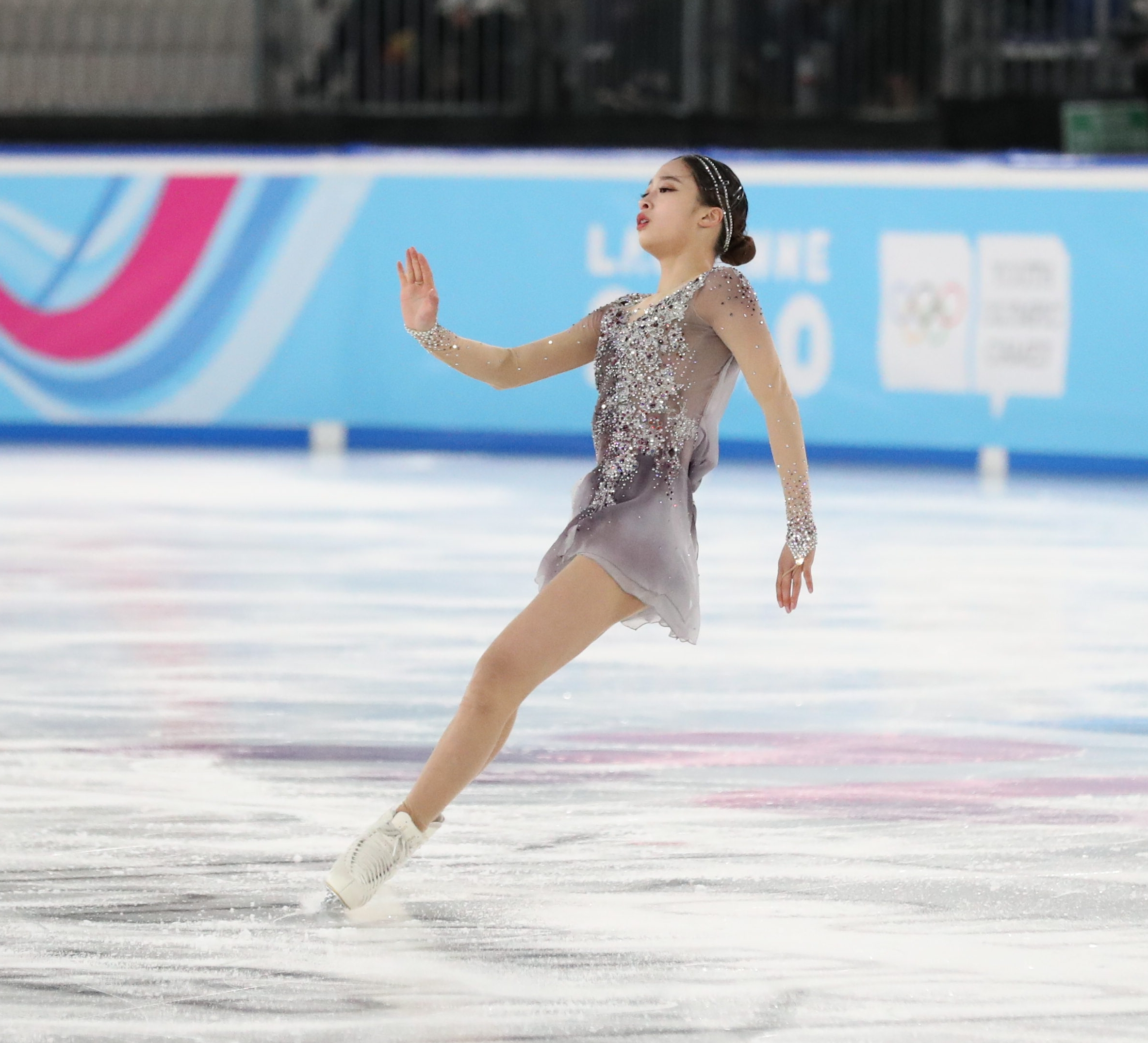 Women Single Figure Skating Short Program at the 2020 Winter Youth Olympics in Lausanne